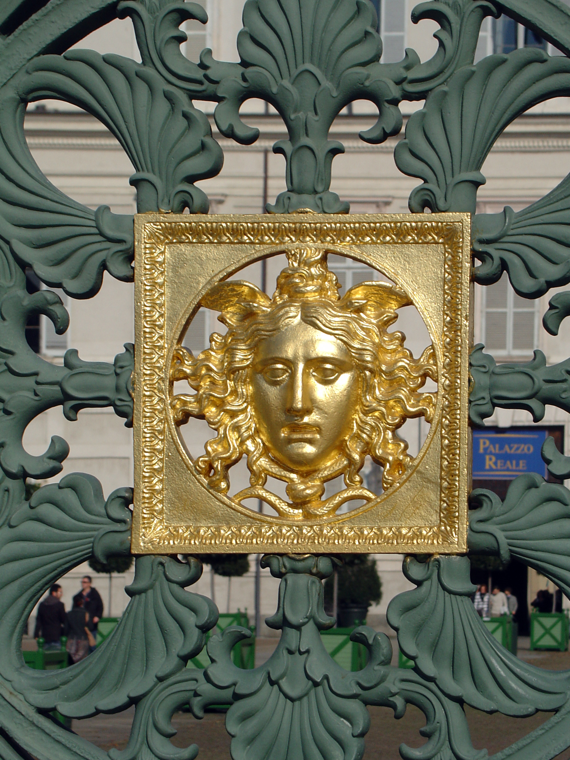 Detail of one Medusa head of the gate parting Piazza Castello from Piazzetta Reale, just in front of the Royal Palace, in Turin.